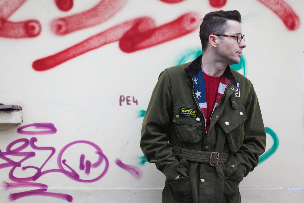 Akcent in Bucharest, Romania